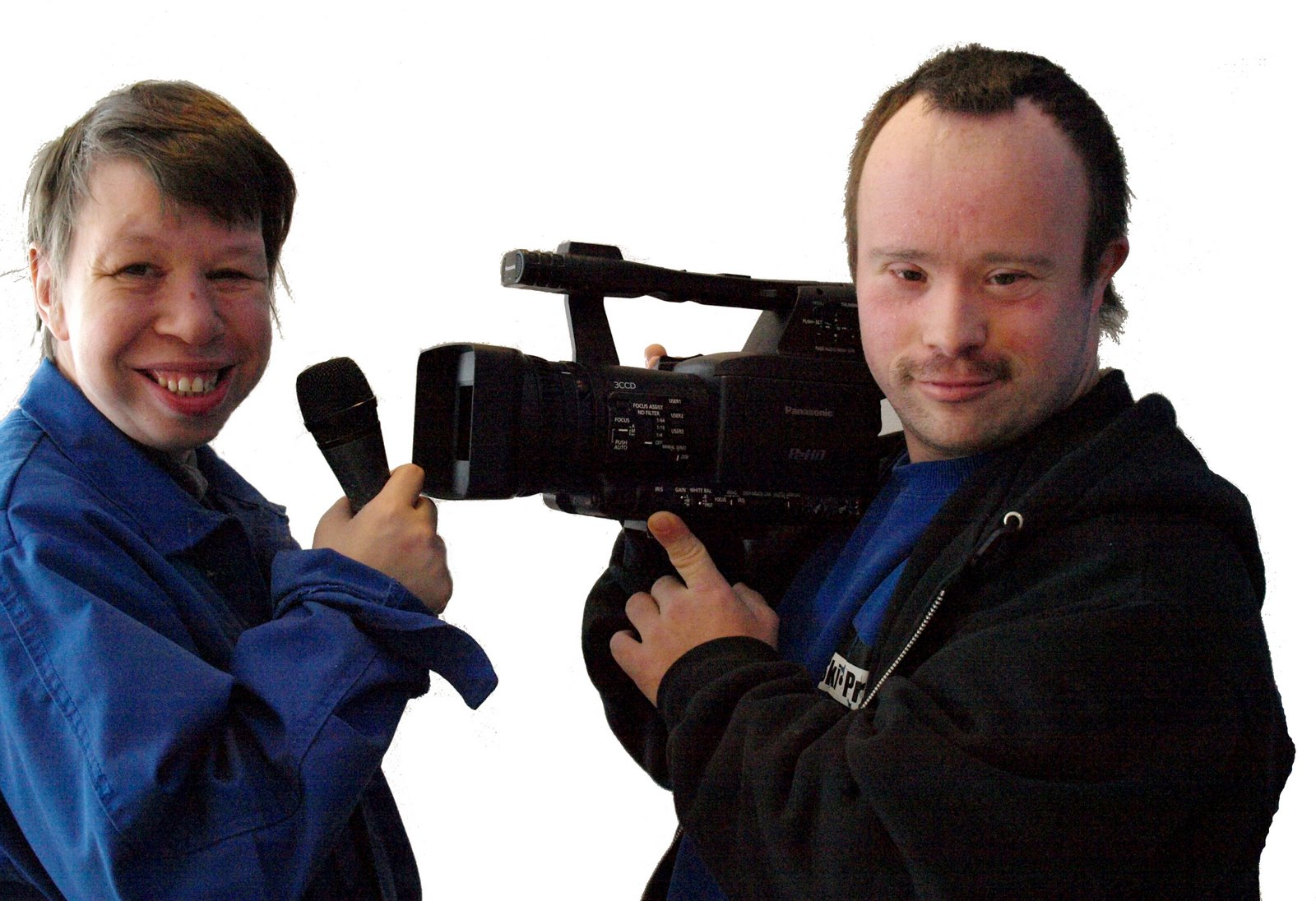 Illustration photo for Empo tv marketing